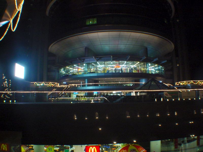 Singapore Post Centre Post Office and MRT station. By Timo Sippala 2002.